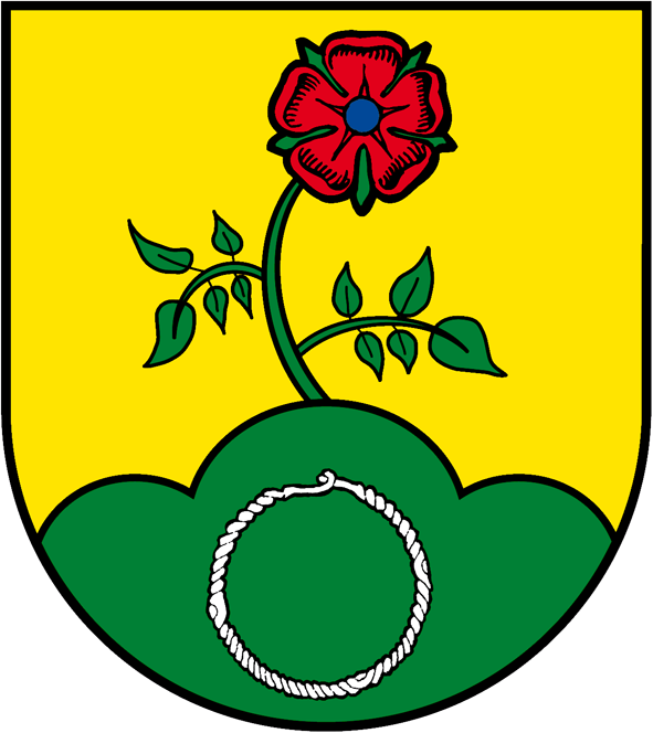 Coat of arms of Hecken